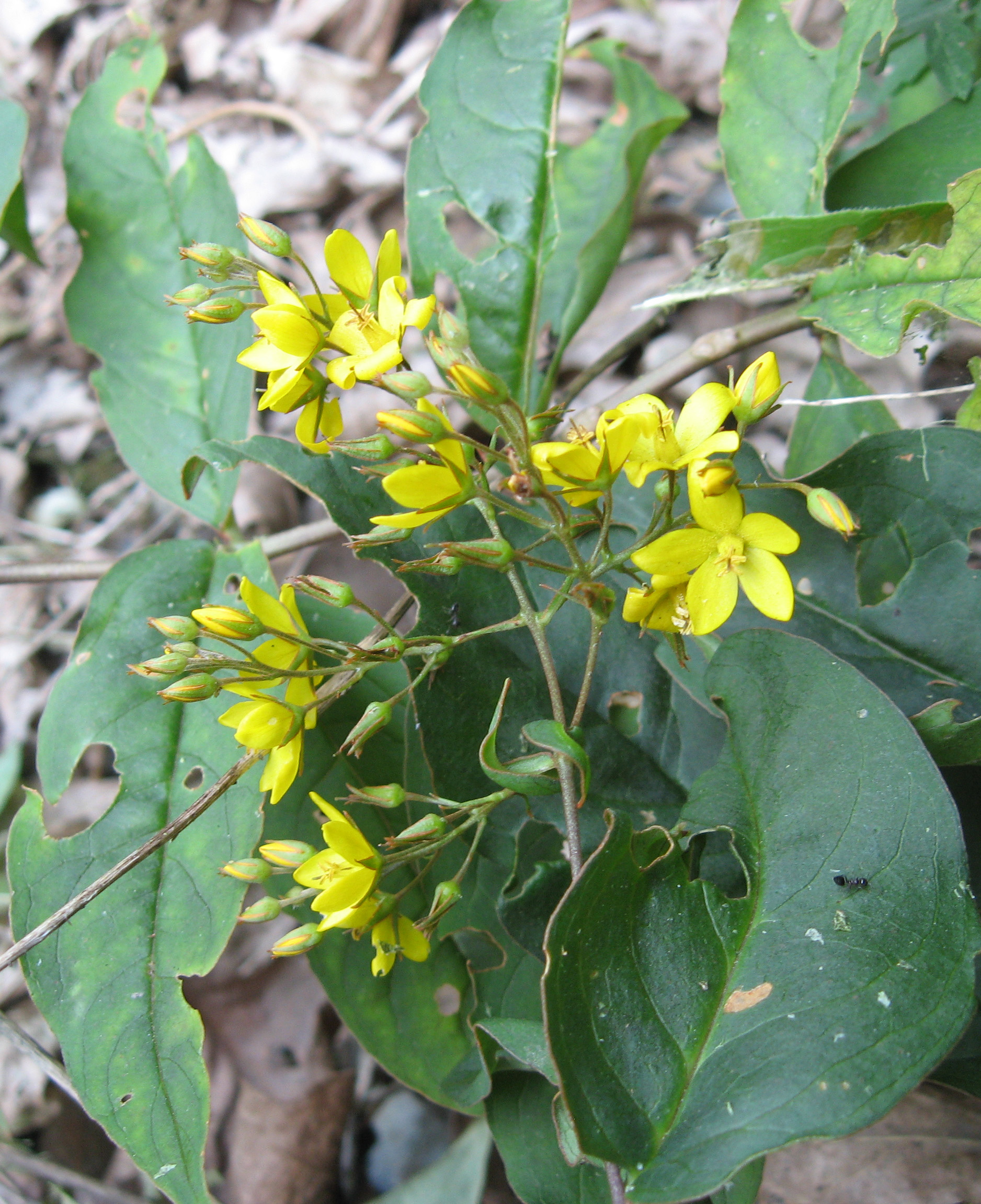 Lysimachia fraseri, North side of the Ocoee River, Polk County, Tennessee.